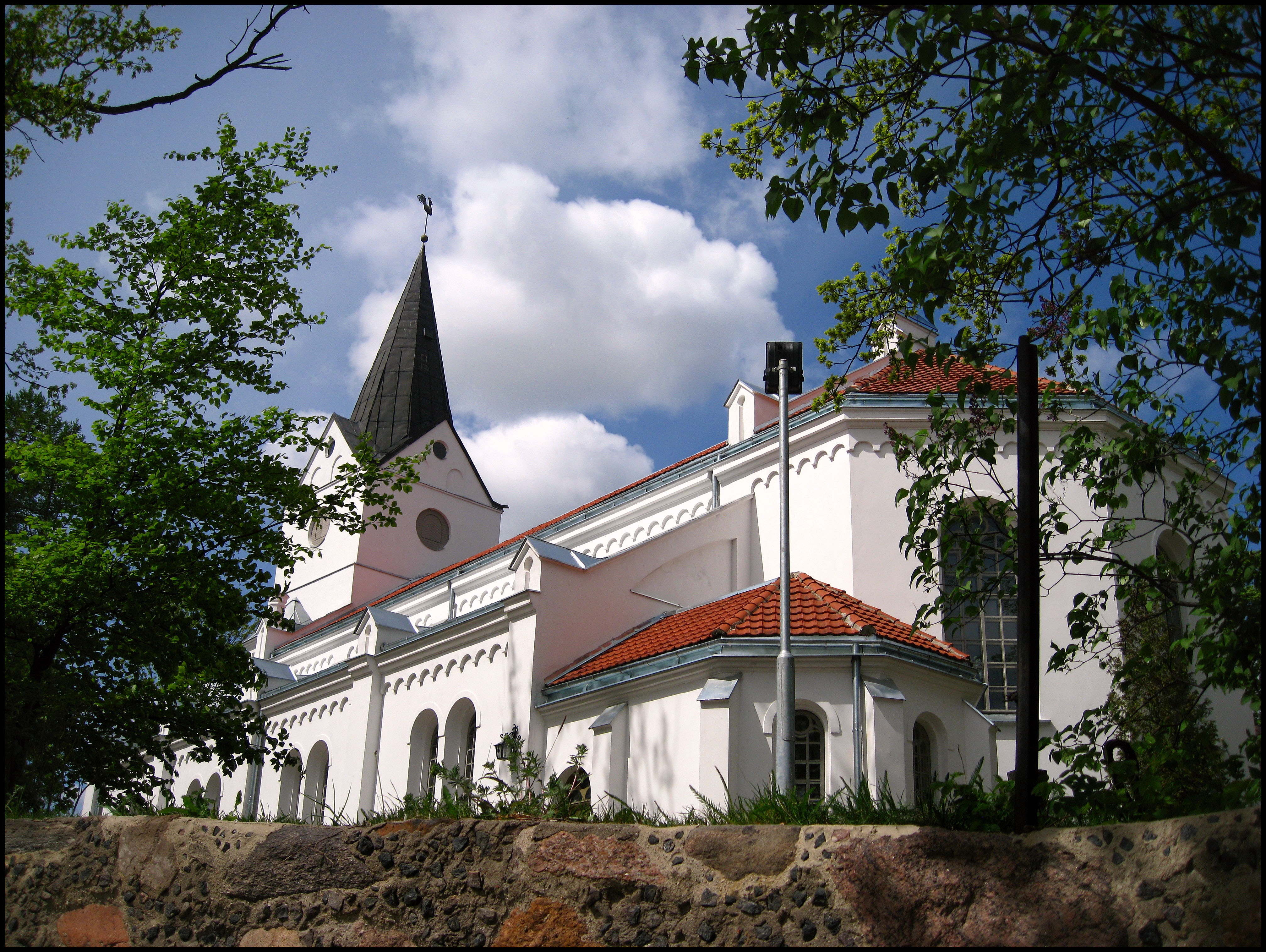 Saldus Saint John Evangelical Lutheran ChurchLatviešu: Saldus Svētā Jāņa evaņģēliski luteriskā baznīca